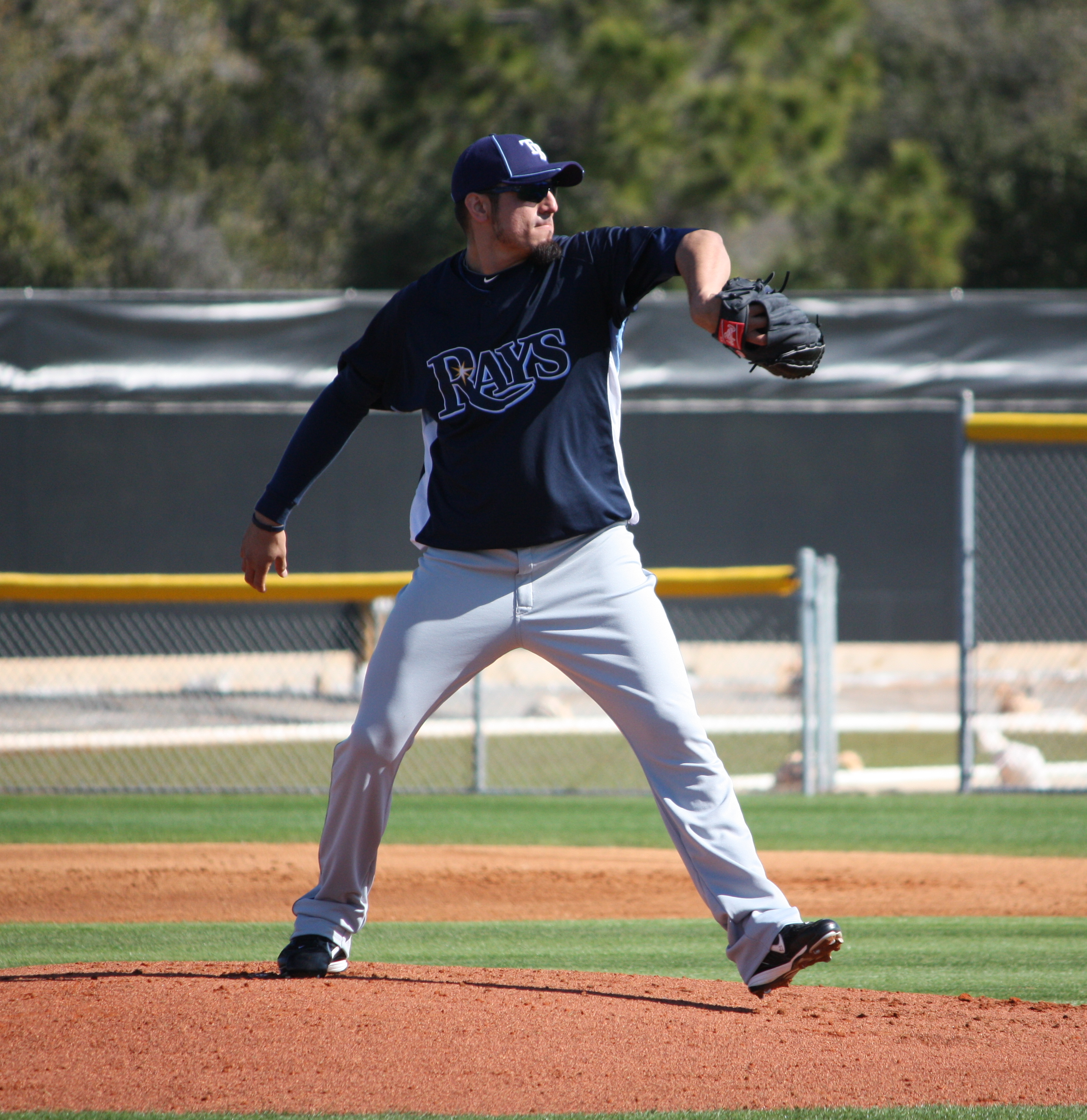 Matt Garza of the Tampa Bay Rays doing first base drills during spring training workouts at Charlotte Sports Park in Port Charlotte on February 21, 2010.